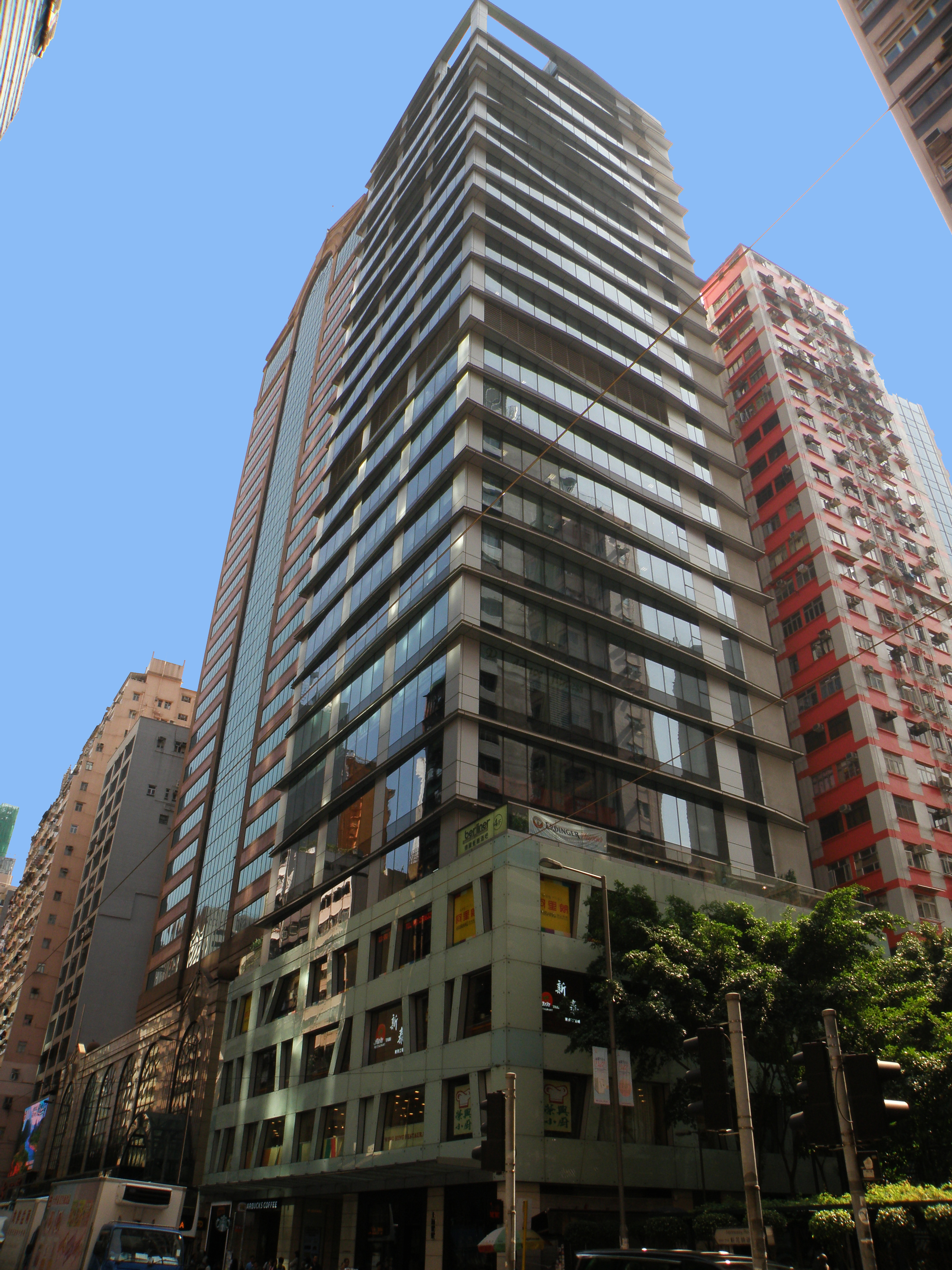 W Square in Wan Chai, Hong Kong.